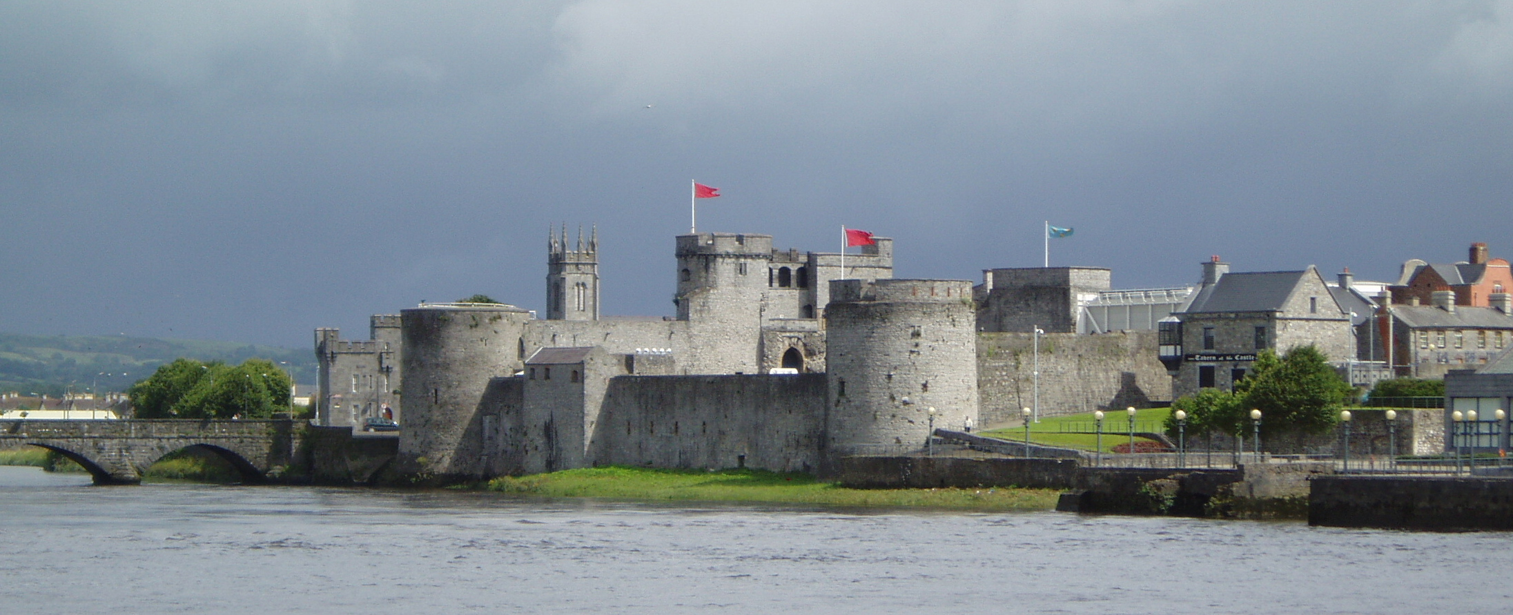 King John's Castle, Limerick. The horse of that name came 2nd in the 2008 Grand National. In the background is the spire of St Michael's Church, Pery Square.